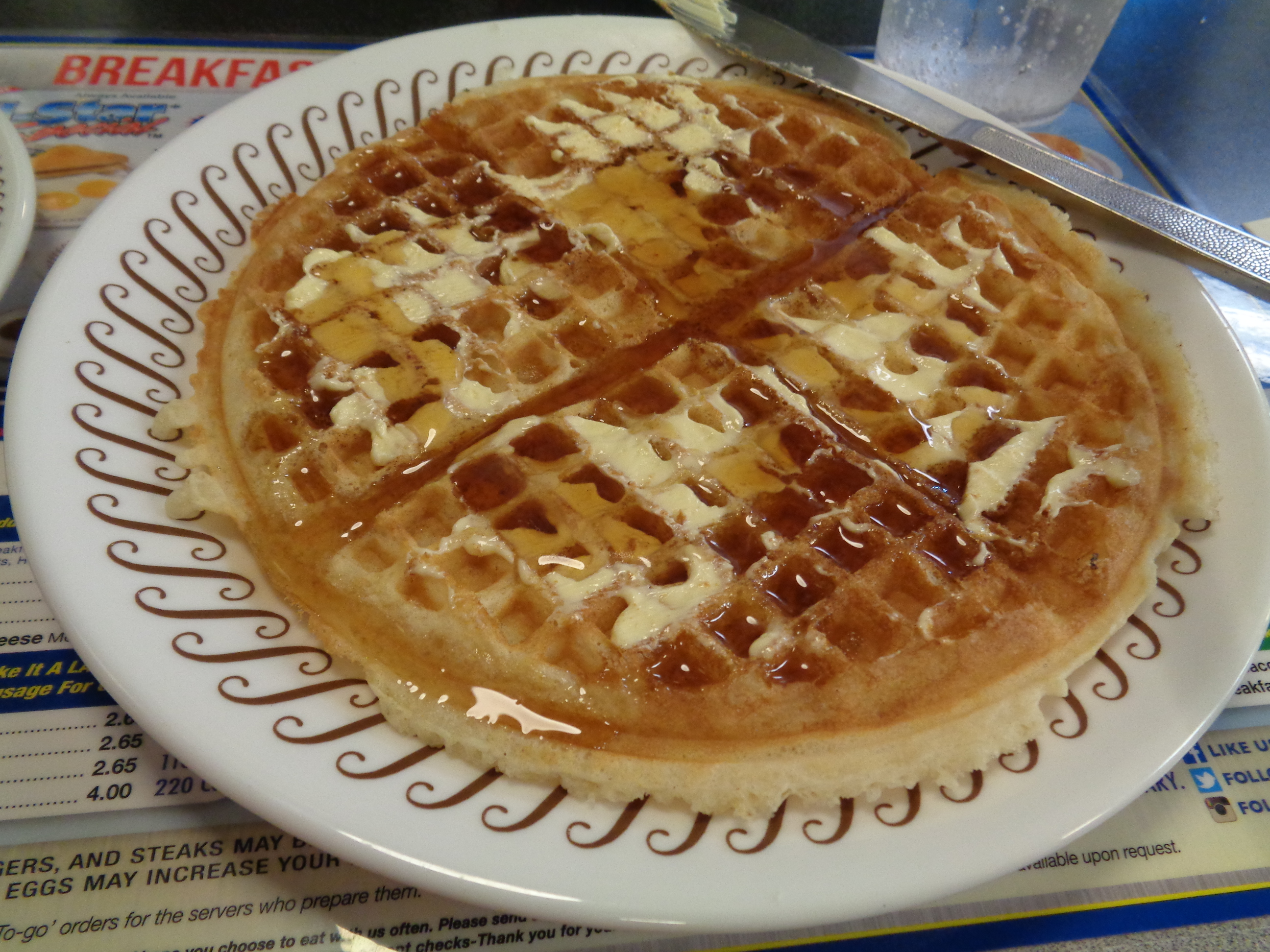 Waffle, Baytree Waffle House, Remerton, Lowndes County, Georgia